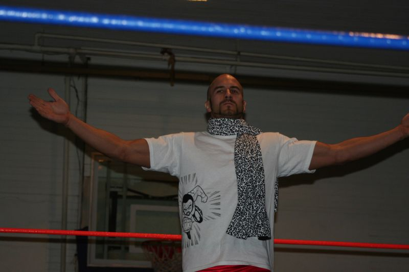 Professional wrestler Claudio Castagnoli at a 2CW event on April 11, 2009